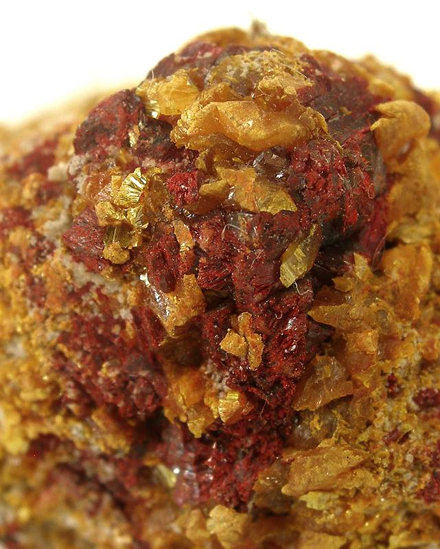 Lorandite, Orpiment Locality: Allchar (Alsar), Roszdan, Republic of Macedonia (Locality at ) Size: miniature, 3.4 x 2.7 x 2.4 cm Lorandite on Orpiment Sharp, very rare lorandite crystals to 3 mm on matrix…and overall a rich concentration of them, too. This is a great locality piece and example of this rare thallium-containing species. Very few thallium mineral species, of the few that do exist, form macrocrystals. Ex. John White Collection.